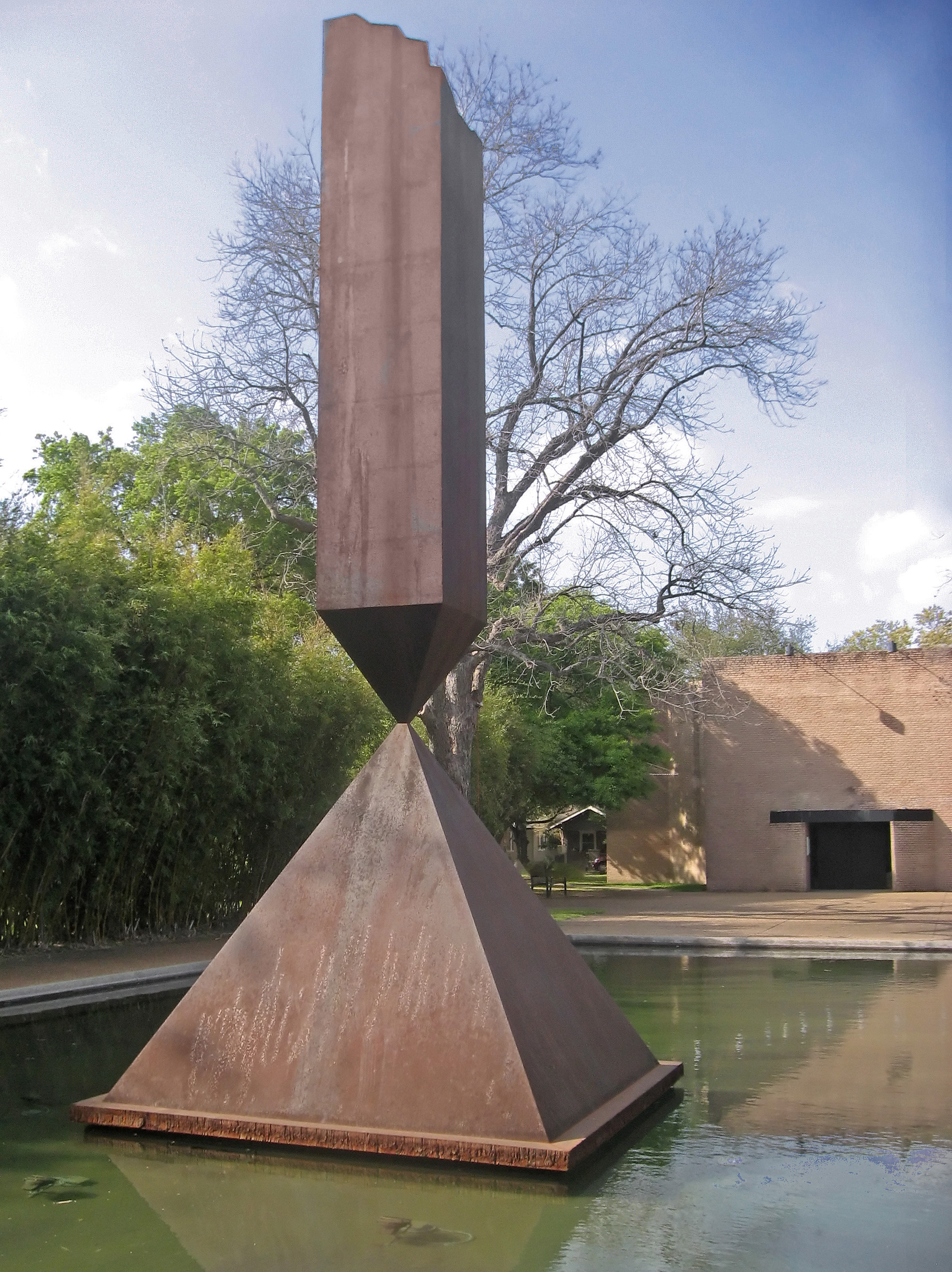 Broken Obelisk in front of the Rothko Chapel in Houston, Texas. The Chapel is on the National Register of Historic Places